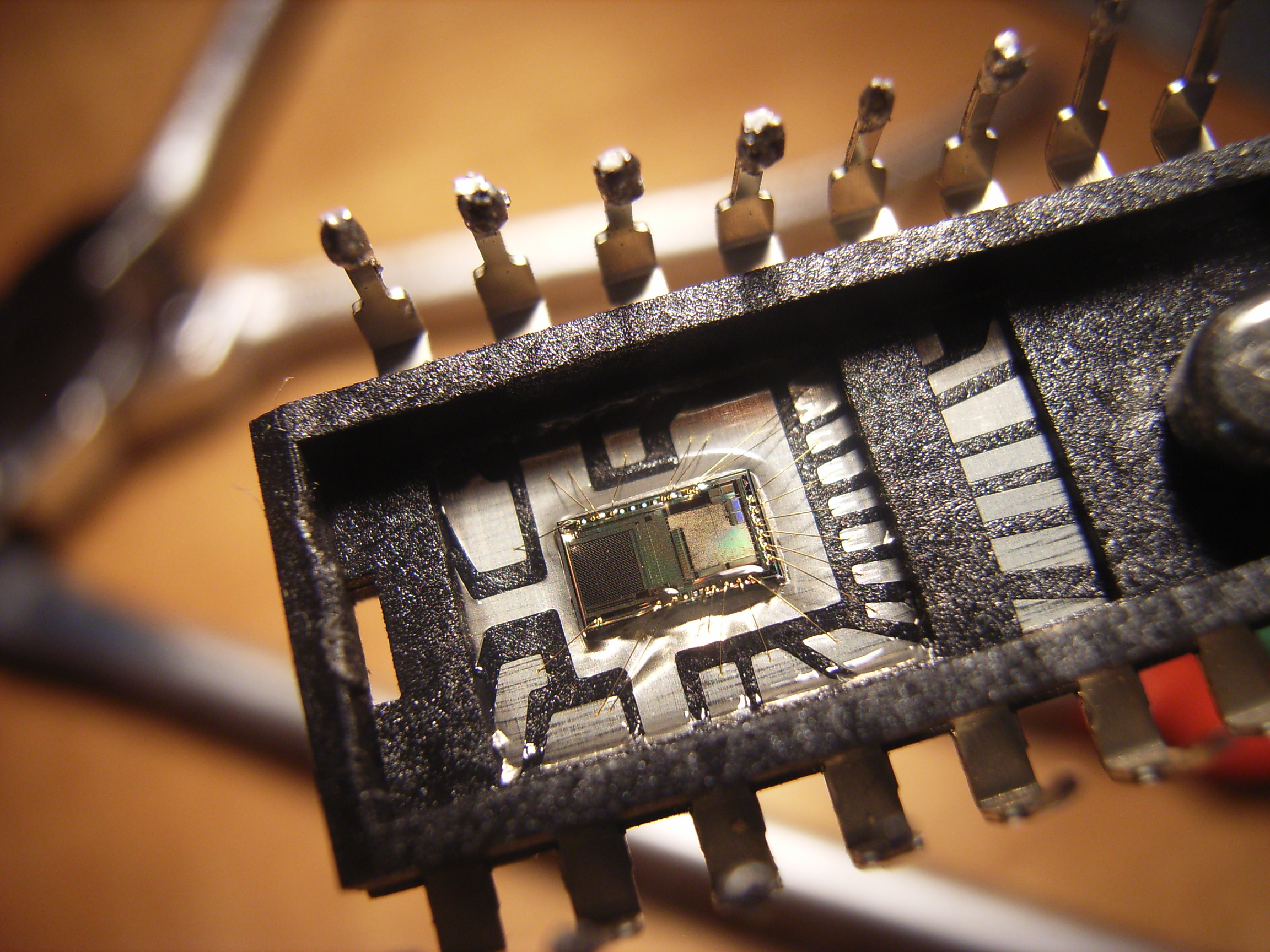 Integrated circuit inside picture.